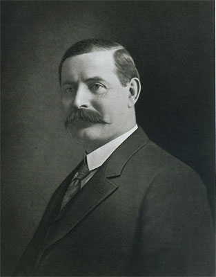 Tirey L. Ford was a successful San Francisco attorney, State Senator, and Attorney-General of California.